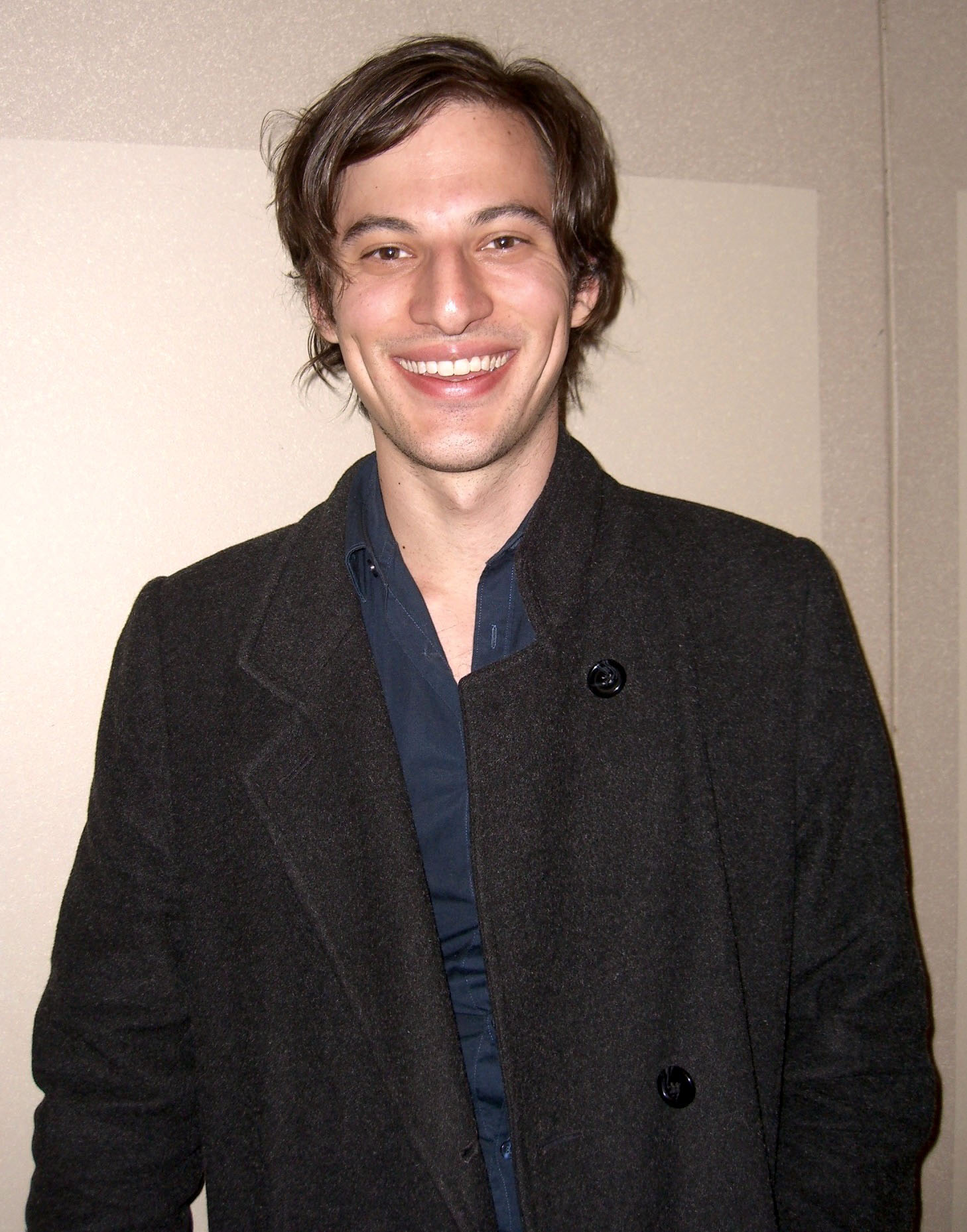 Comic book creator Dash Shaw at the New York Comic Convention in Manhattan, October 8, 2010. Photo by Luigi Novi. This photo may be used, modified and published for any purpose, only if a easily visible credit to the photographer is placed near the photo in each instance in which it is used. (See licensing information below.) Publication of this photo without this proper attribution constitute copyright infringement. For more information on my photos, you can contact me here.